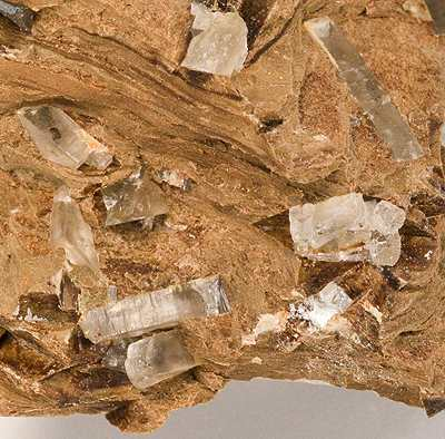 Shortite Locality: Green River Formation, Sweetwater County, Wyoming, USA (Locality at ) Size: small cabinet, 7 x 6 x 4 cm Shortite And you thought the Green River sandstone beds only produced fish and palm fossils, eh? Well, I did. I personally never realized that the TYPE LOCALITY for this rare sodium/calcium carbonate was in Wyoming, before now. This specimen is exceptionally rich with gemmy shortite crystals embedded in the sandstone, to 1 cm in size. This is rather large for the species , and for specimens from this locality if what i see on MINDAT is any indication. This specimen is one of two, which fit together and are thus descended from the same sample. It will come with a photocopy of the original label that came with both.